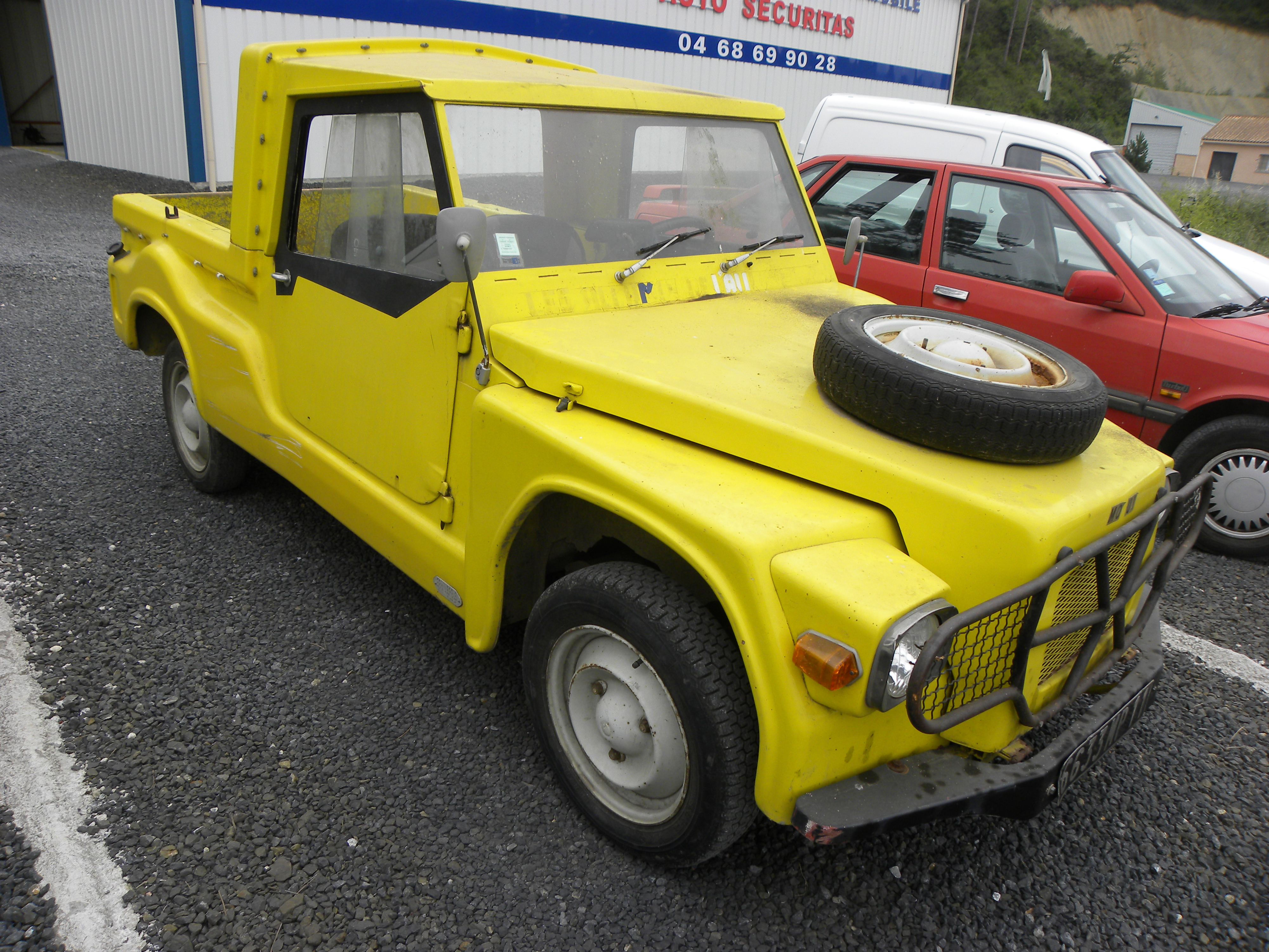 Early (1976-87?) Fredcar (fr).